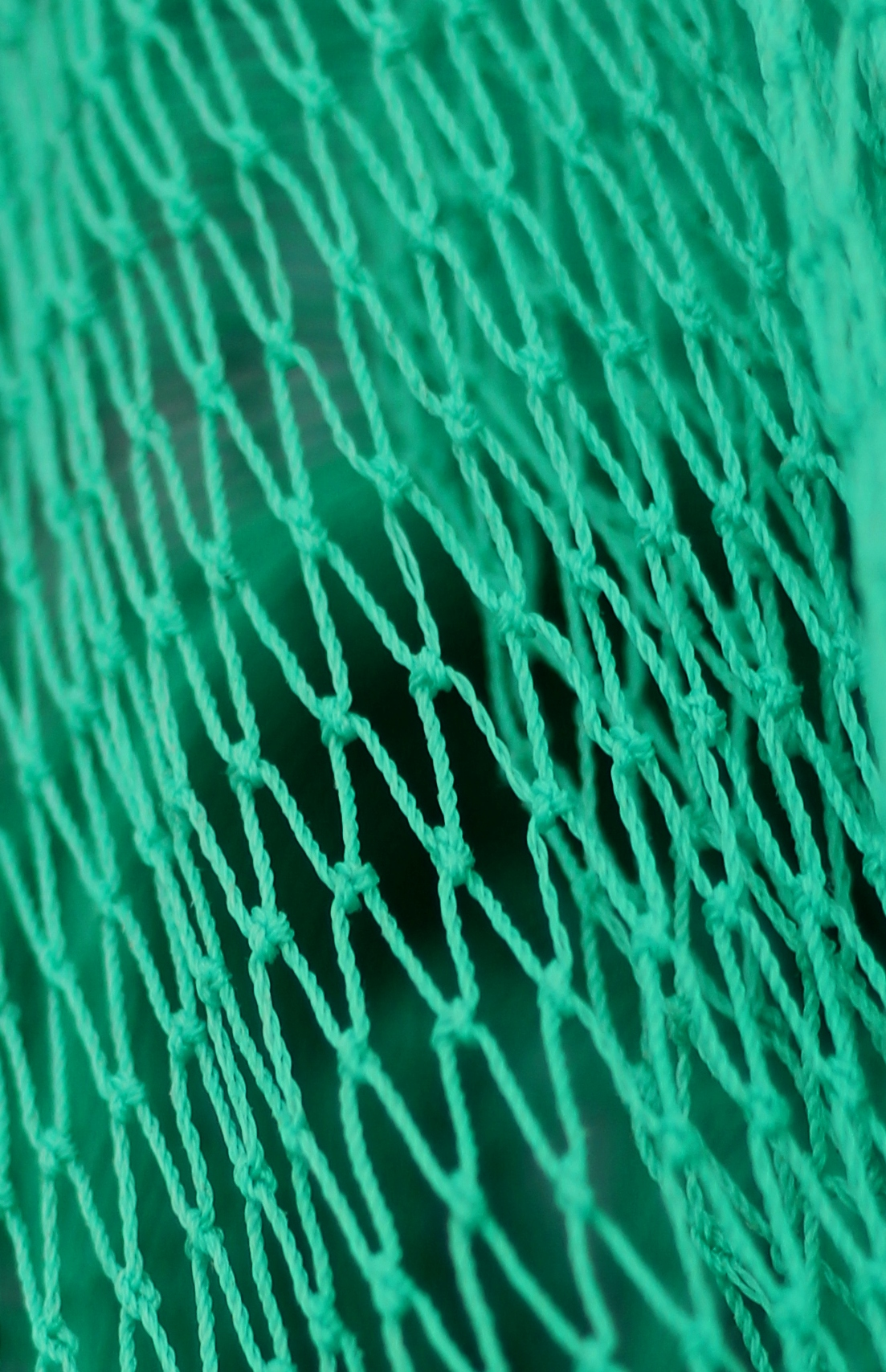 HDPE Monofilament nets (320 Denier - 3 ply) with 80mm to 85 mm mesh size are the most popular type of construction safety net around the world.